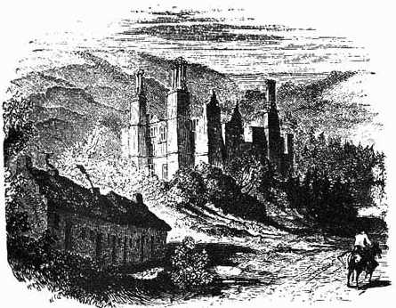 Illustration by Henry Doyle (1822-1892)